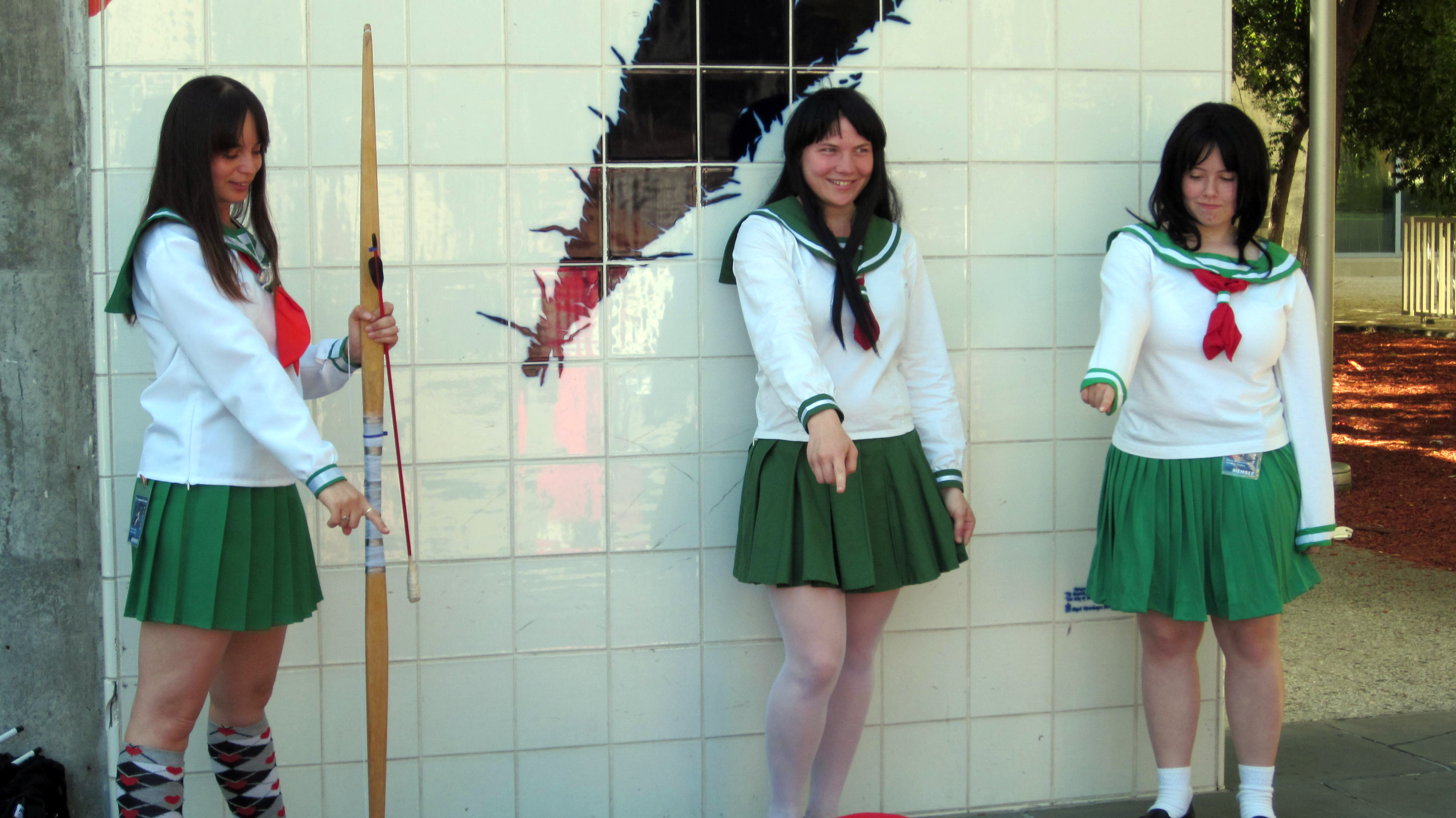 Cosplayers portraying Kagome Higurashi from InuYasha at FanimeCon 2010 in San Jose, California.